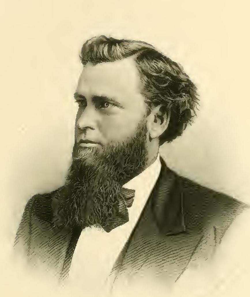 Charles Henry Bartlett